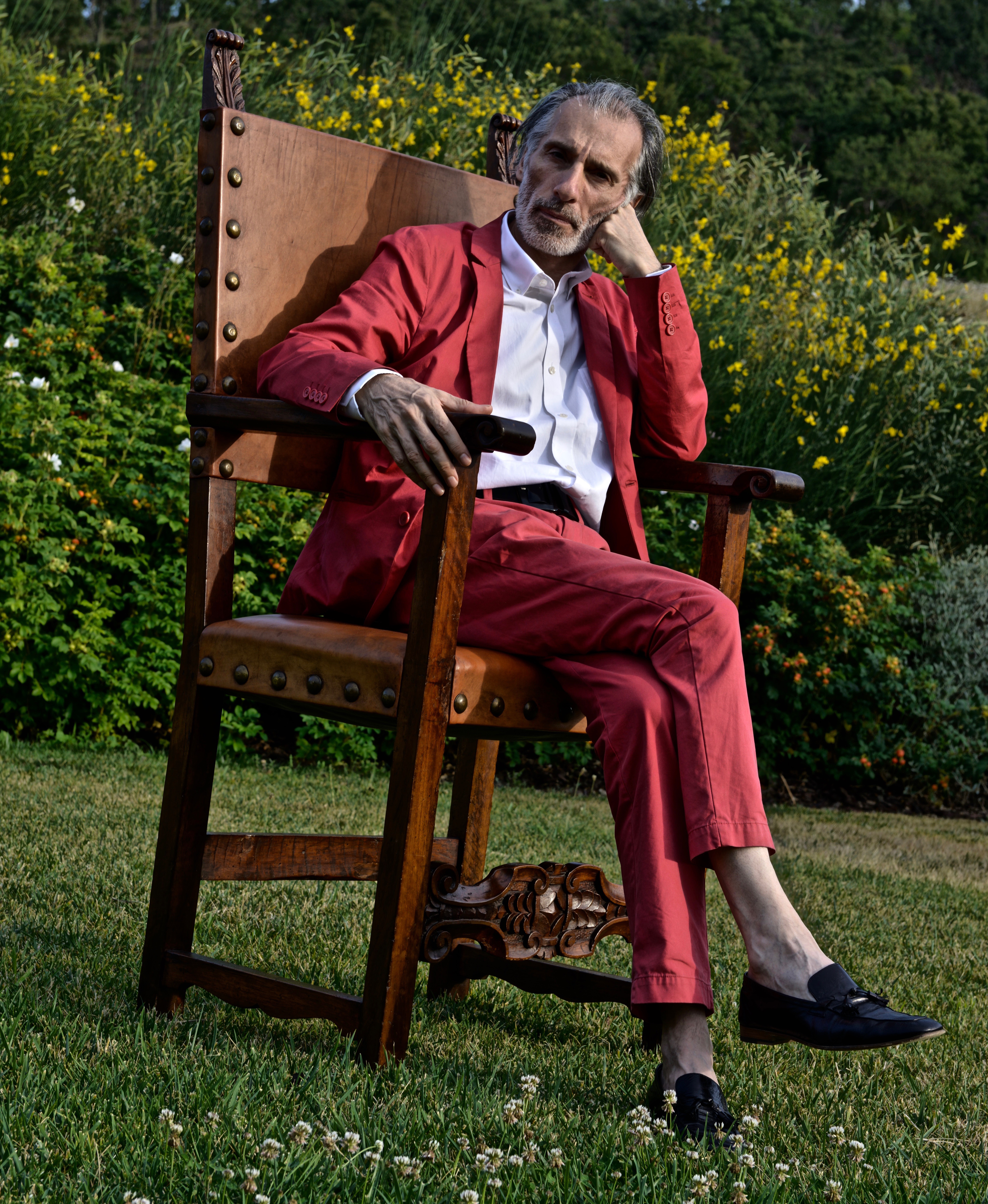 Born: July 21st, 1956 in Venice, Italy Nationality: Italian, American Education: Ca' Foscari, University of Venice; Accademia di Belle Arti, Venice Known for: Installation Art, Sculpture Website